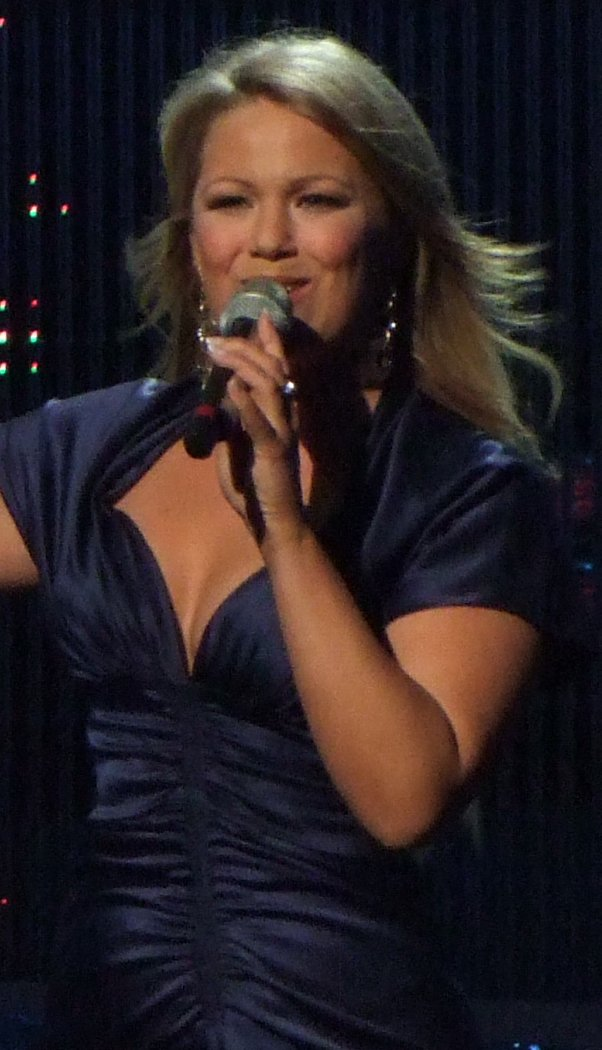 Cropped image of Maria Haukaas Storeng in the first semi-final at the Eurovision Song Contest in Belgrade, Serbia, May 20, 2008.